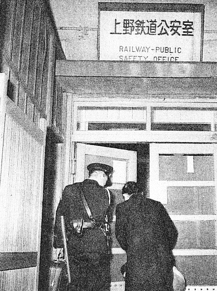 Ueno Railway-Public Safety Office in 1950s